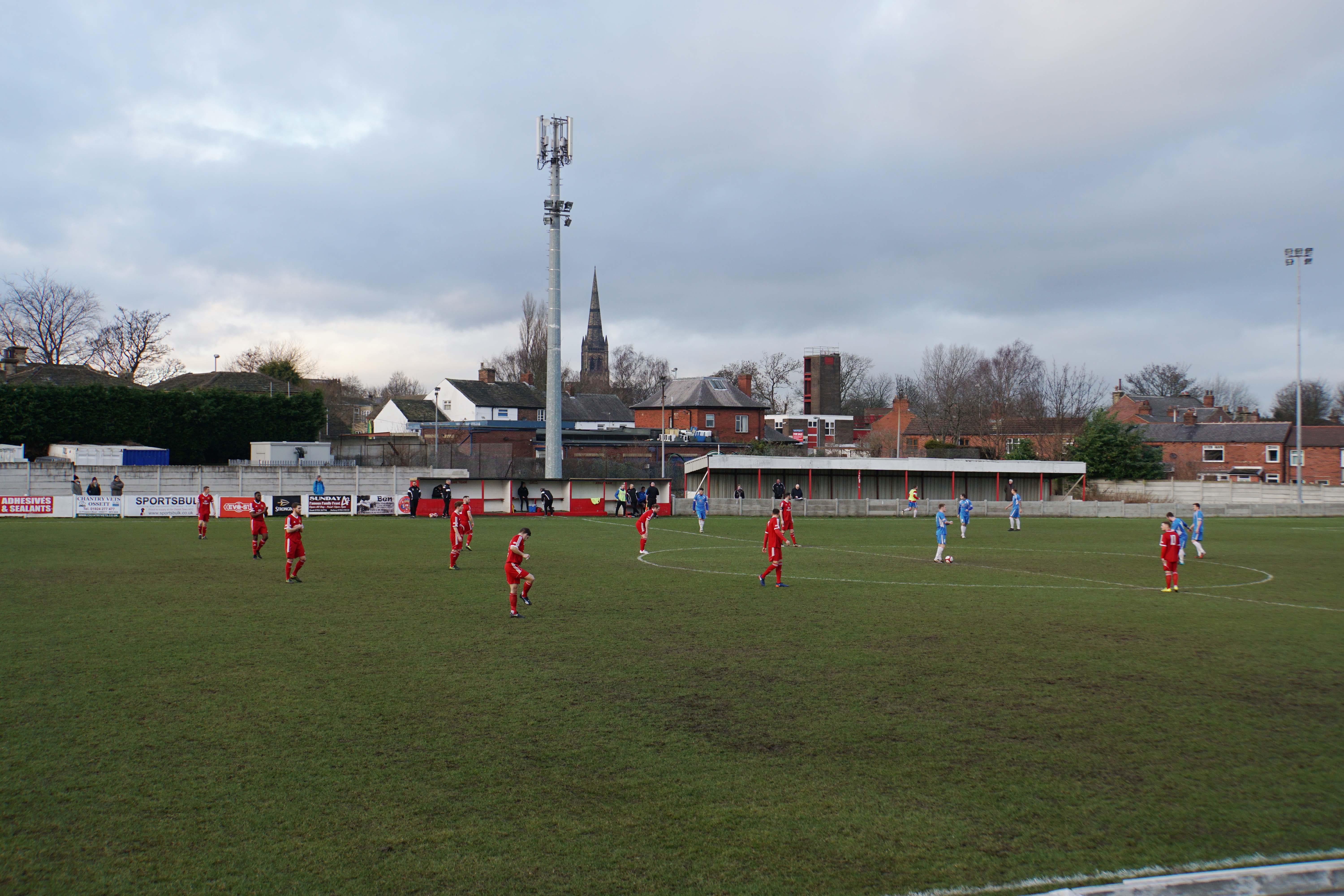 Fotball match at Ingfield